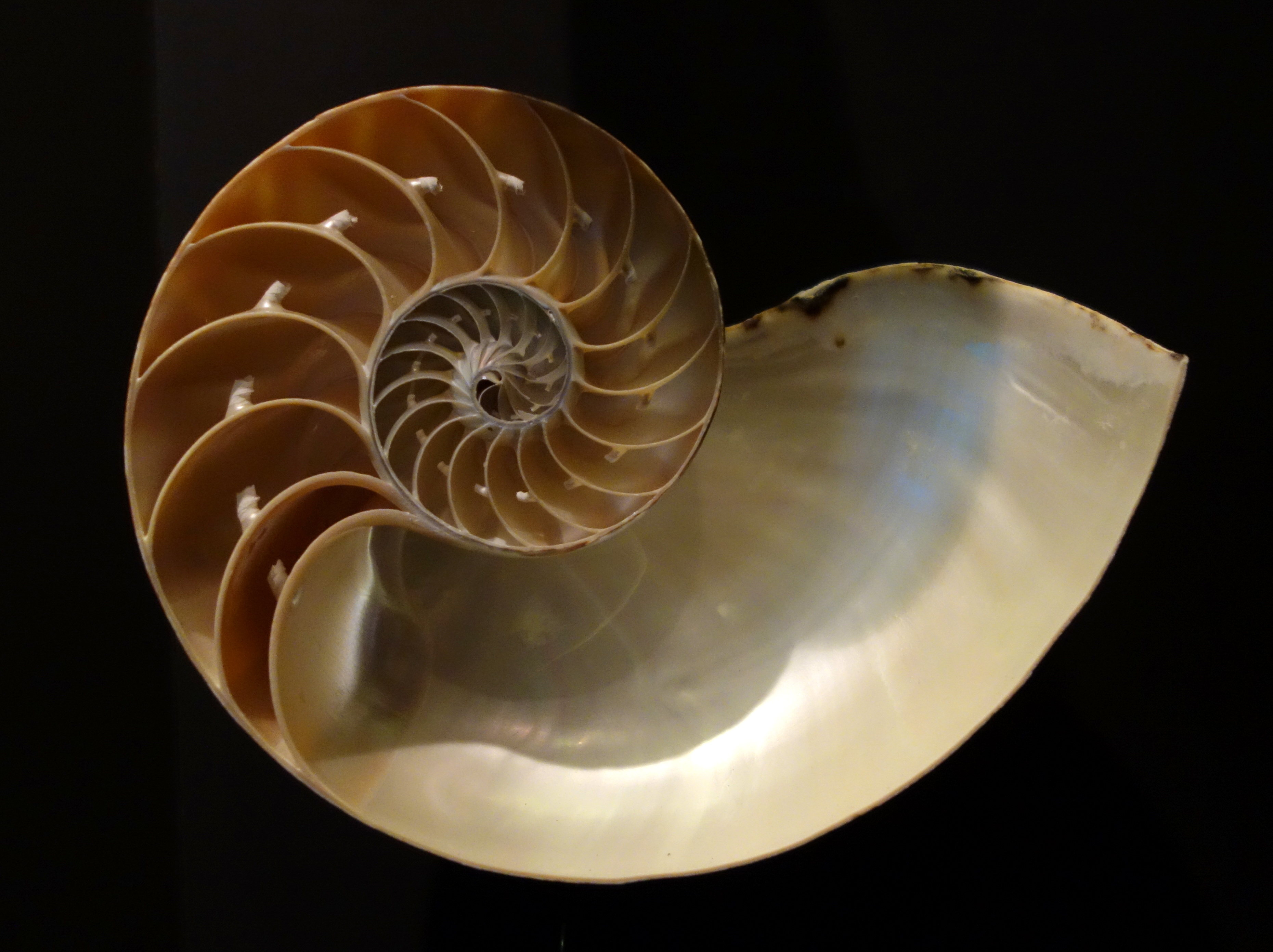 Exhibit in the Fernbank Museum of Natural History, Atlanta, Georgia, USA.